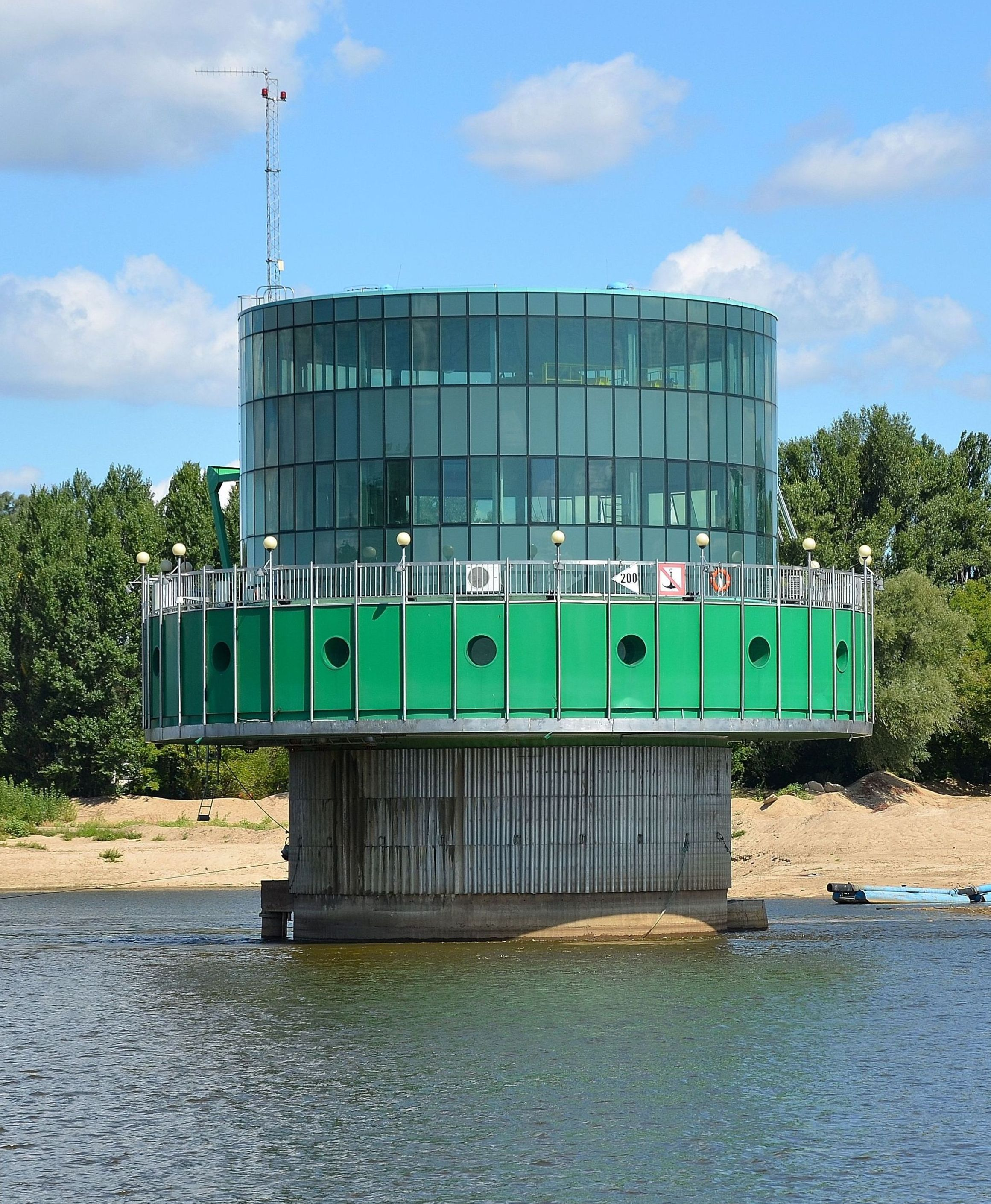 Fat Kate in Warsaw